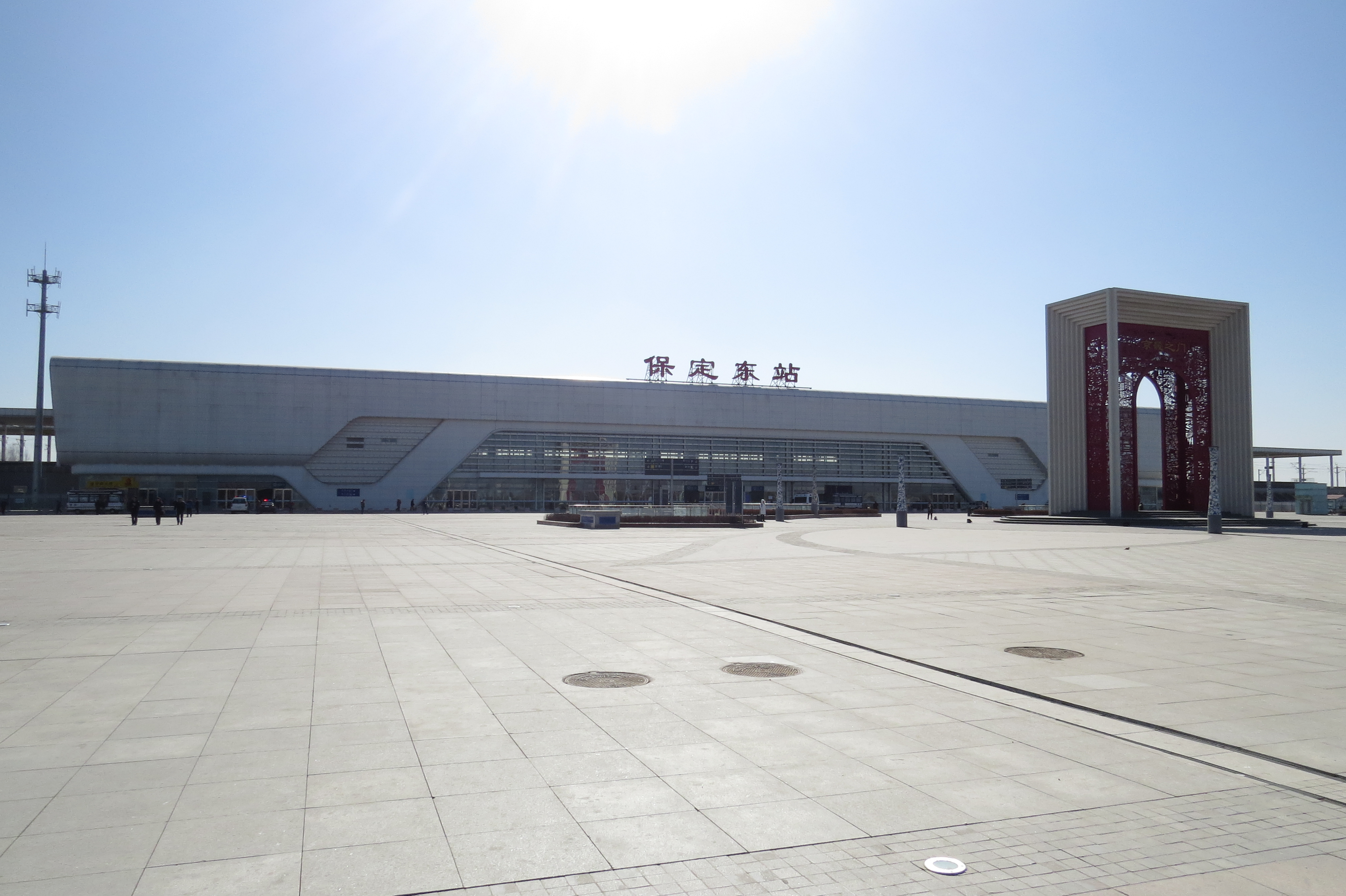 With the sculpture "Gate to the Capital".